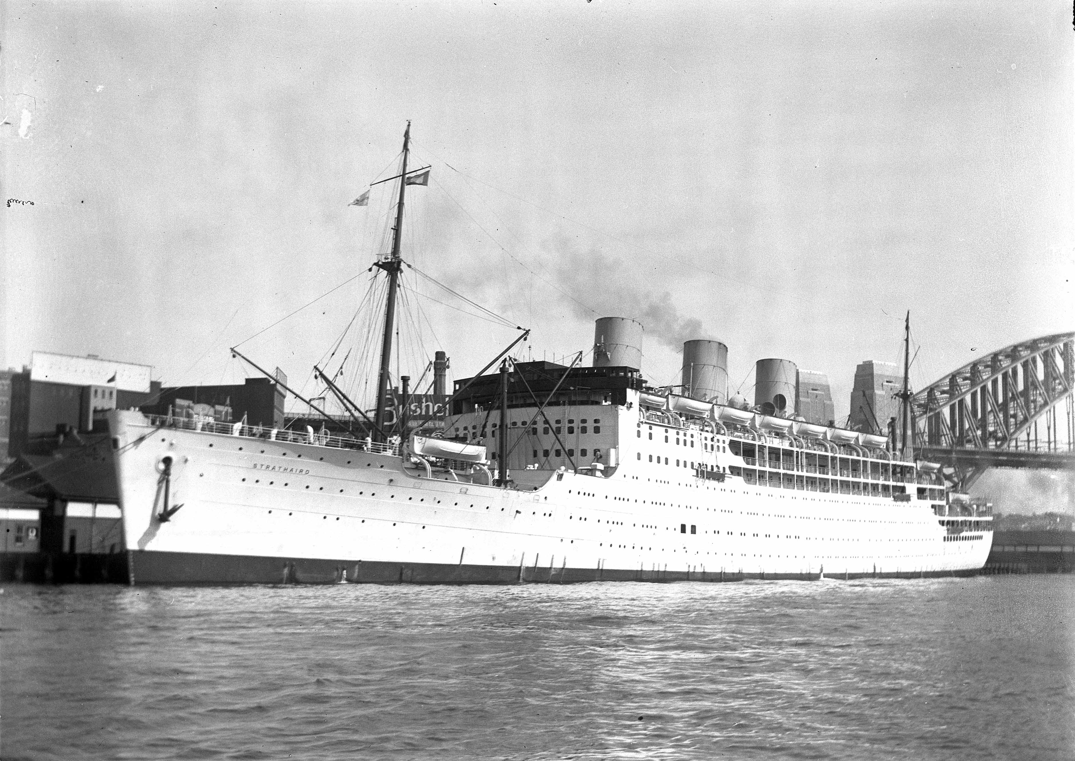 This image shows the liner STRATHAIRD at No 4 wharf Circular Quay on Saturday 31 December 1932, due to depart at 11.30am. Wilkinson captured the image from the 8.08am ferry from Mosman to Circular Quay. Frederick Wilkinson (1901 - 1975) migrated to Australia from England in 1911. While wokring various jobs in and around central Sydney, Wilkinson acquired a camera and began taking photographs of vessels and harbour scenes. Many of his images were used by commercial photographers for souvenir postcards. The ANMM undertakes research and accepts public comments that enhance the information we hold about images in our collection. This record has been updated accordingly. Photographer: Frederick Garner Wilkinson Object no. 00041589